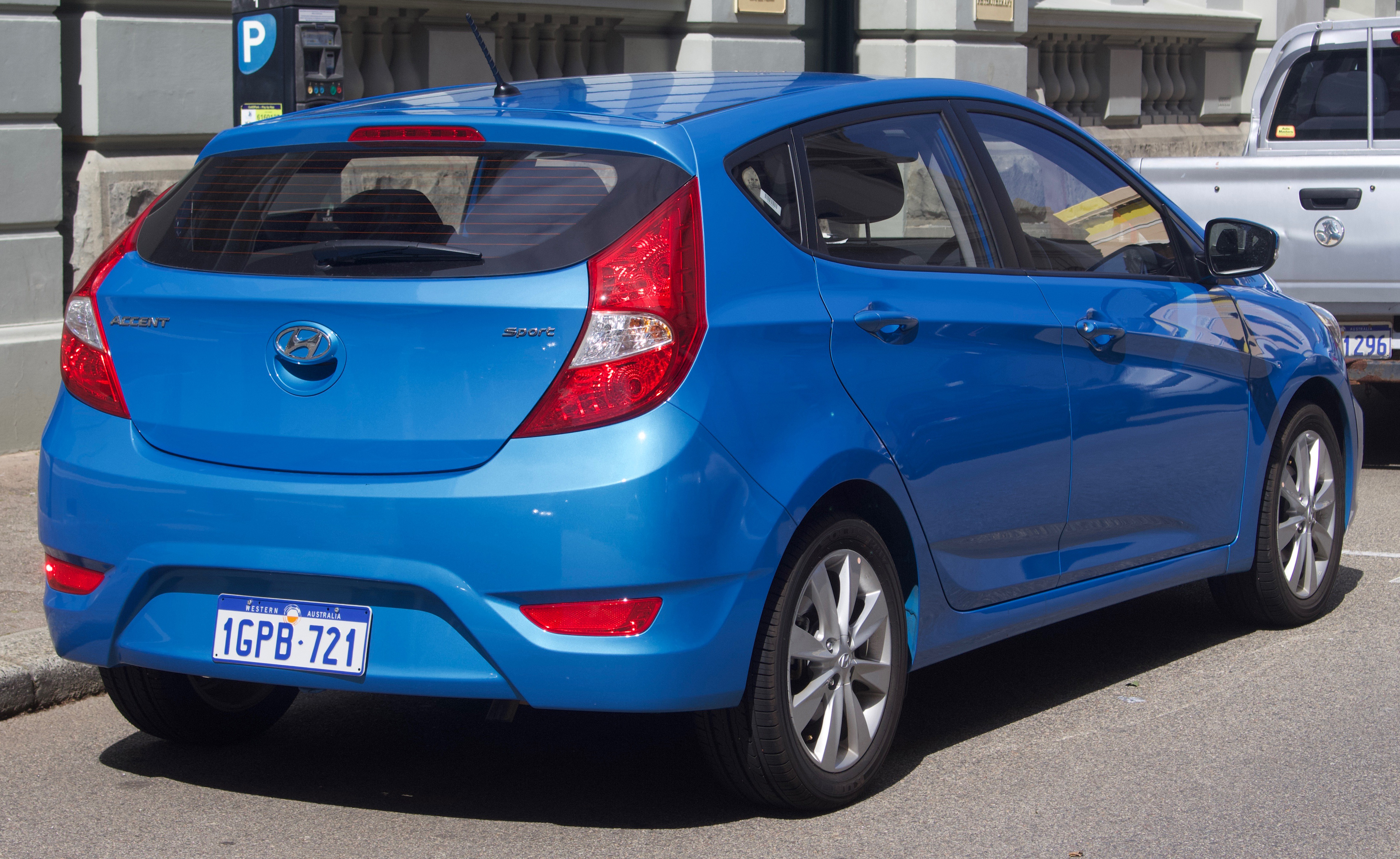 2018 Hyundai Accent (RB6 MY18) Sport hatchback. Photographed in Fremantle, Western Australia, Australia.